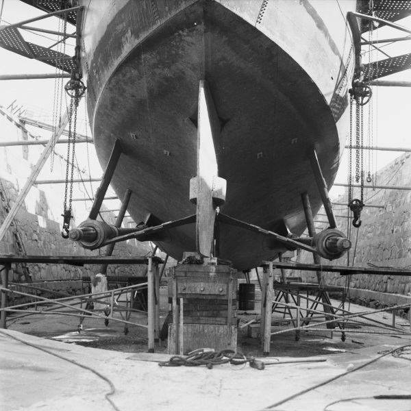 Propeller shafts on the Swedish destoyer HMS Norrköping.